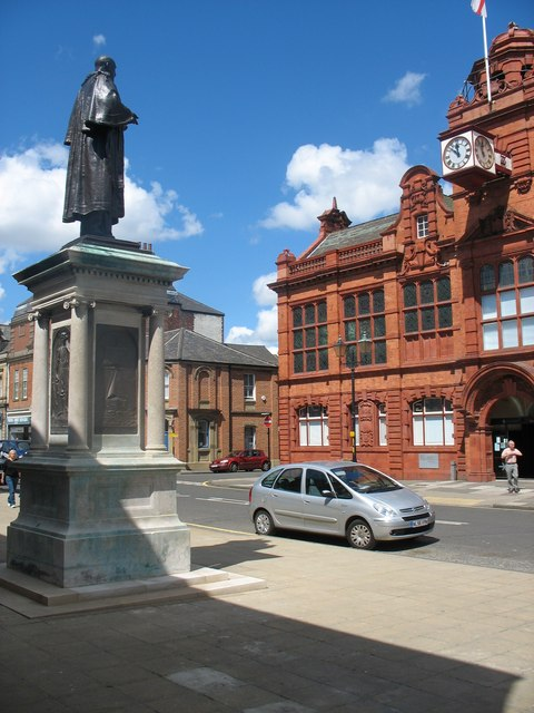 Palmer Statue overlooking Jarrow Town Hall The statue of Charles Mark Palmer (Baronet) overlooking Jarrow Town Hall in Grange Road Jarrow. 'Oh! look Charlie it's nearly time for Lunch'